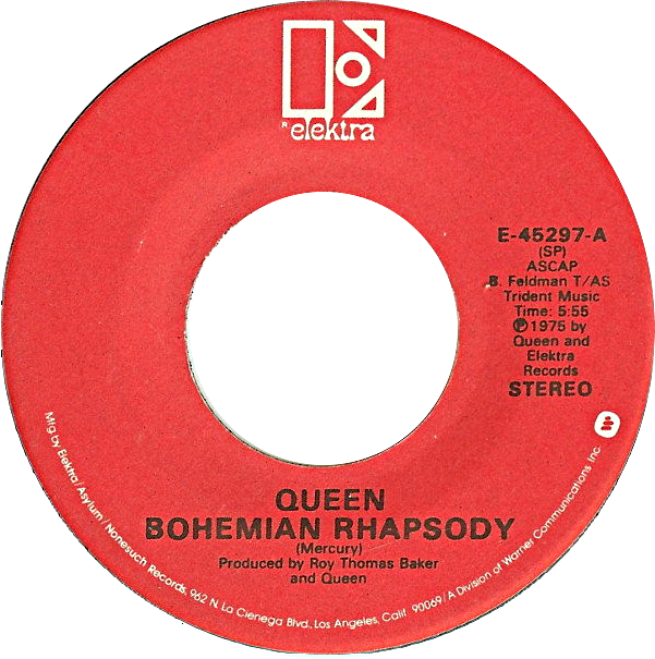 Bohemian Rhapsody by Queen US vinyl red label